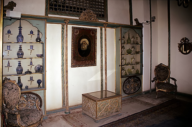 Gayer-Anderson Museum, Turkish or Muhammad Ali room, Cairo, Egypt